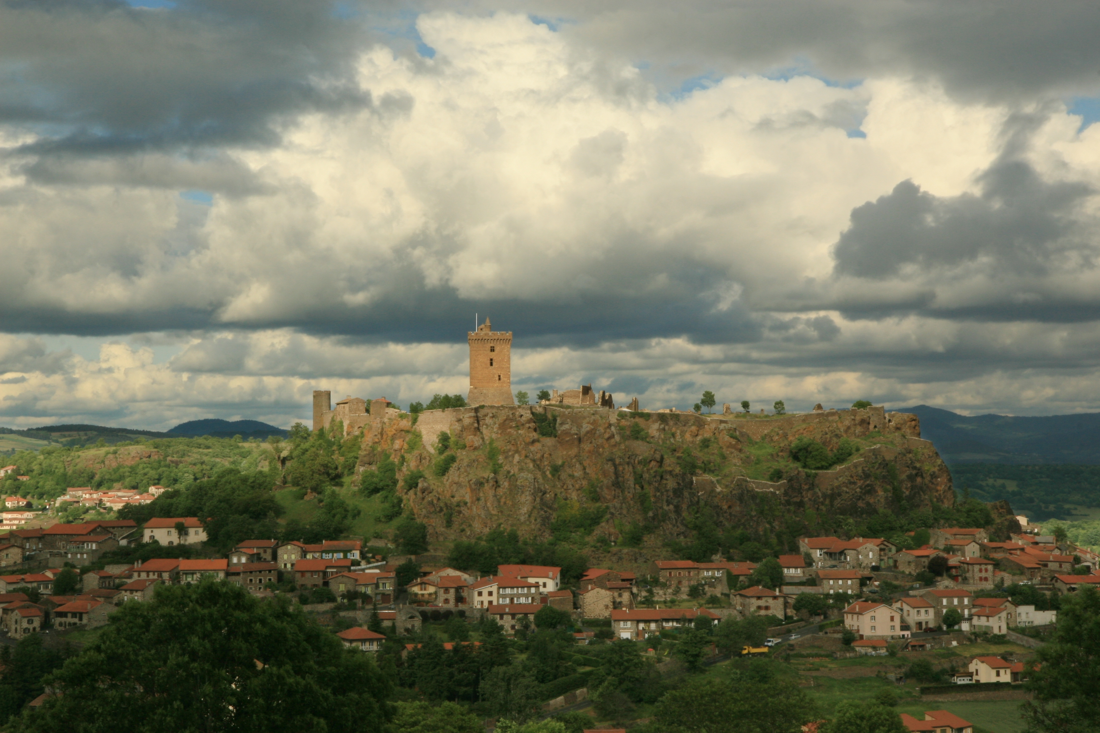 Polignac is a commun the the départenment Haute-Loire, France